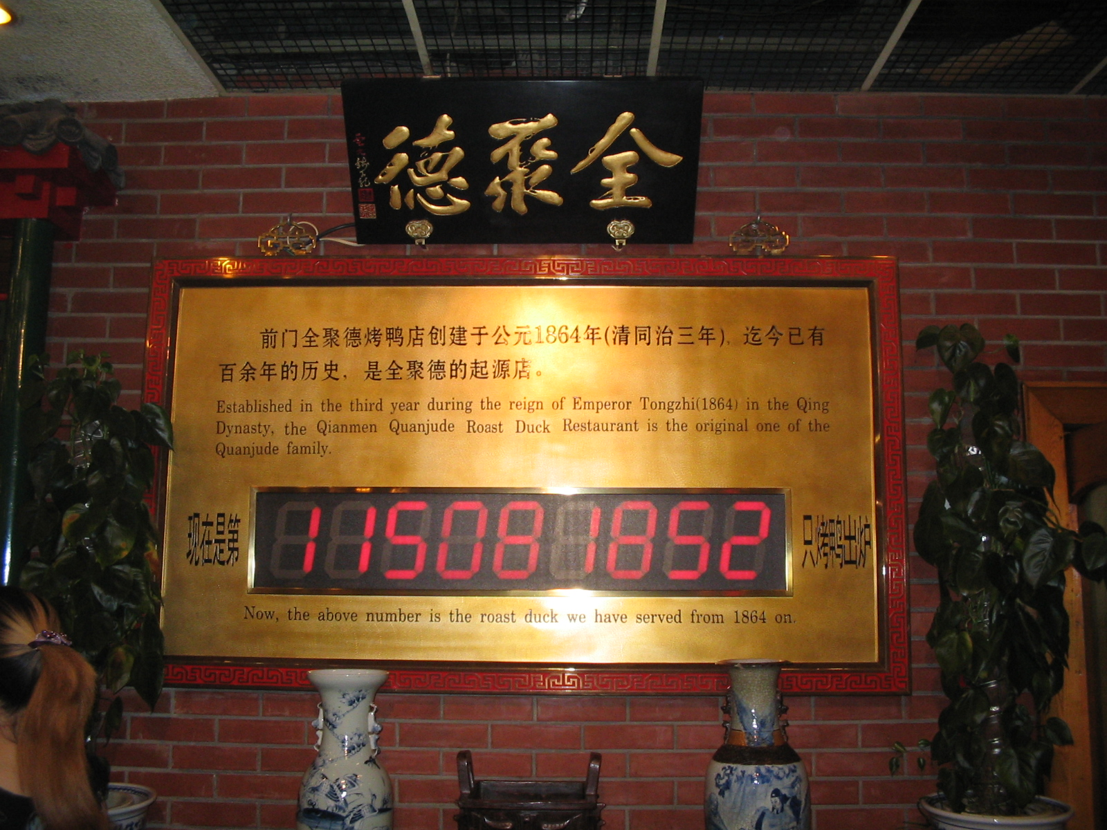 Number count of the Duck served, Quanjude Qianmen, 25 July 2005